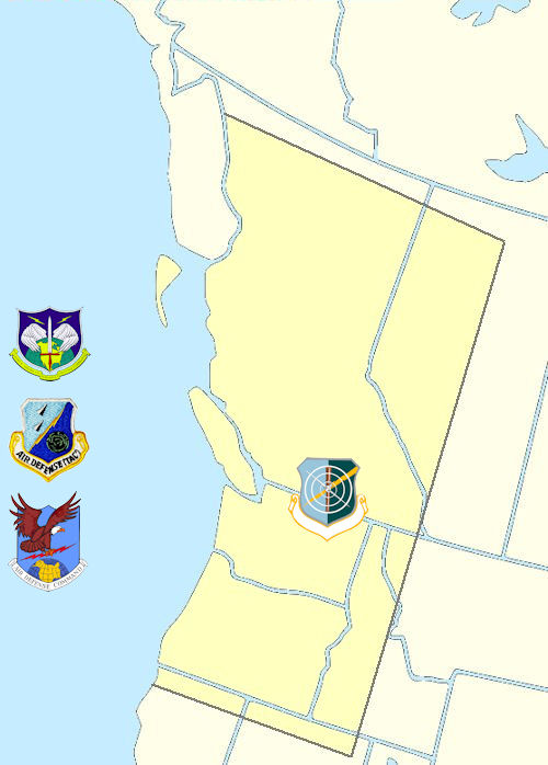 Emblem of the 25th Air Division/NORAD Region 1966-1990